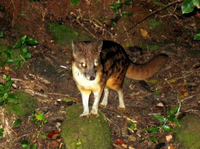 Fossa fossana